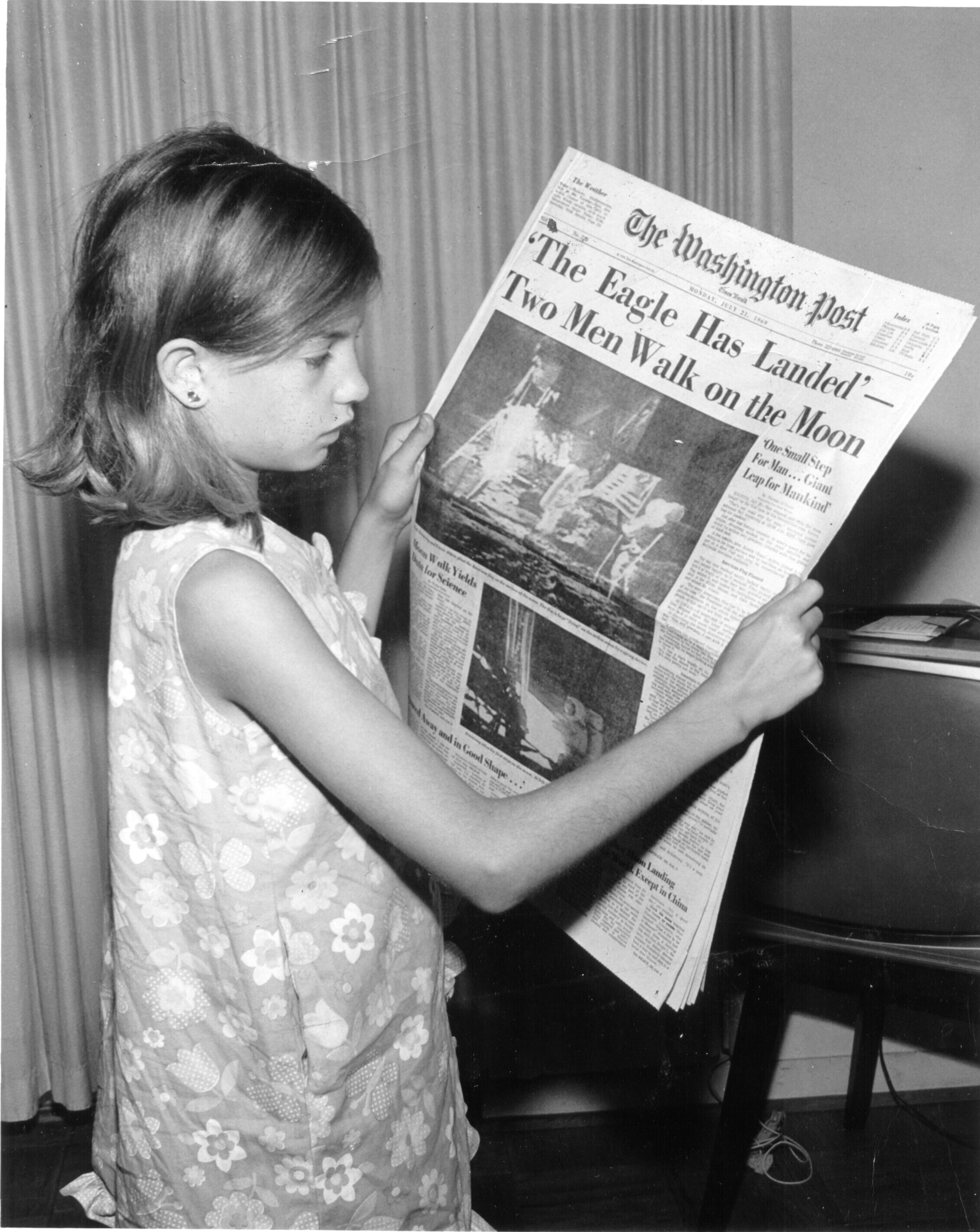 This is a picture of my mother holding the Washington News Paper on Monday, July 21st 1969 stating 'The Eagle Has Landed Two Men Walk on the Moon'. The photo was taken by my grandfather Jack Weir (1928-2005).